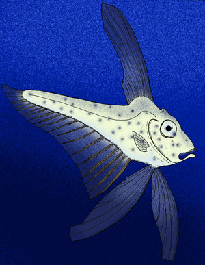 Reconstruction of the Eocene lamprid Bajaichthys elegans from the Monte Bolca Lagerstatten